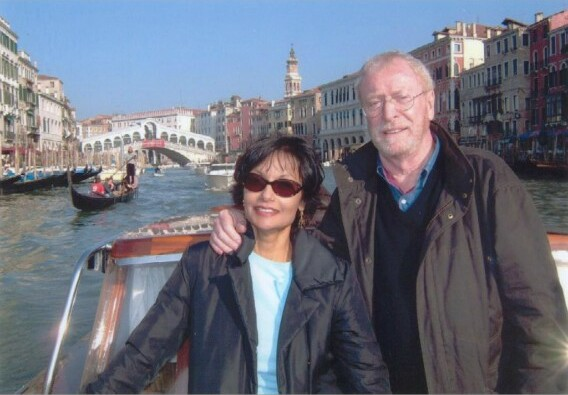 Holiday snap of Shakira and Michael Caine in Venice